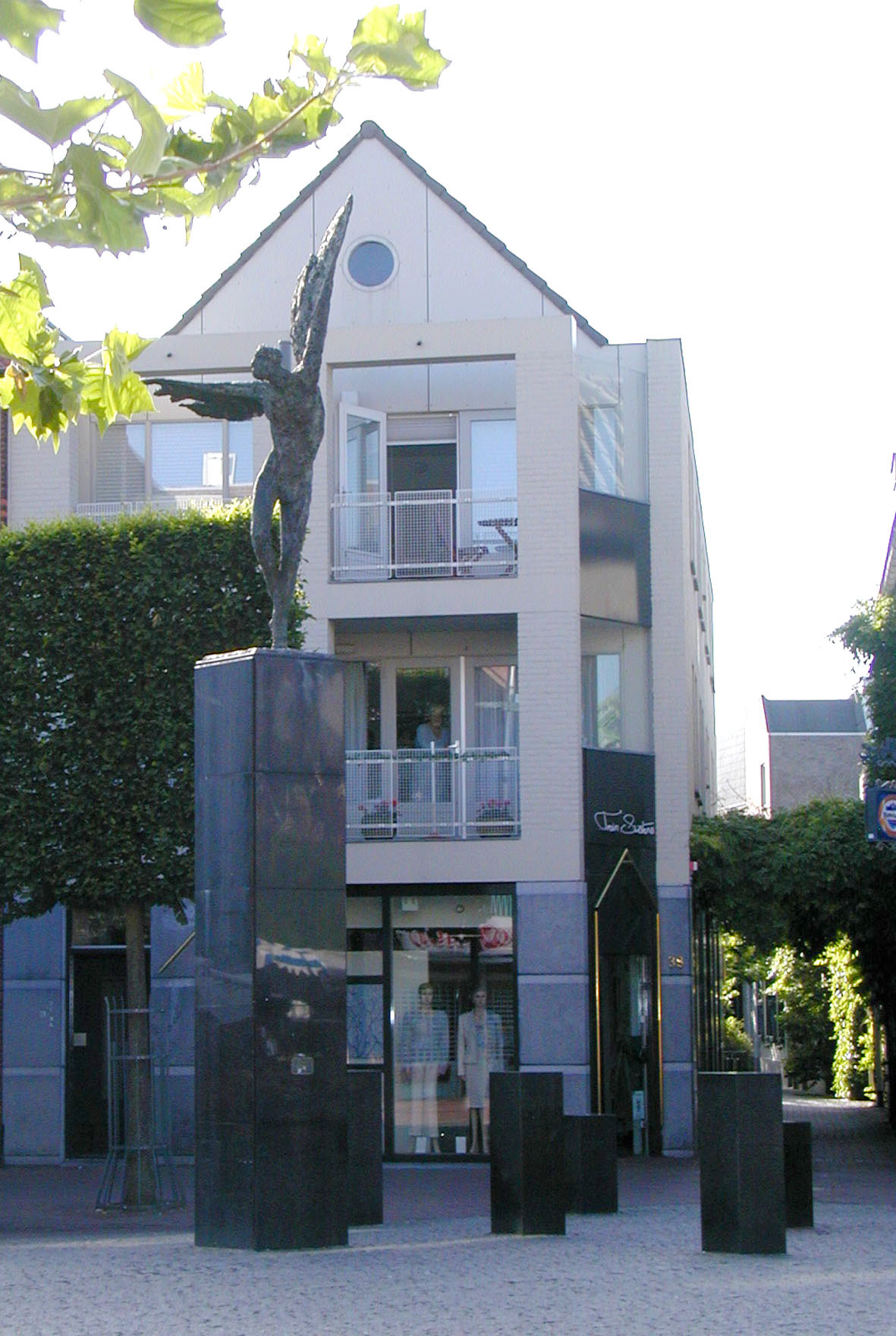 A sculpture by Dutch artist Saskia Pfaeltzer situated on the central market square of Helmond, Holland. The title of the work can be translated as 'cloud chaser' or 'cloud hunter'.